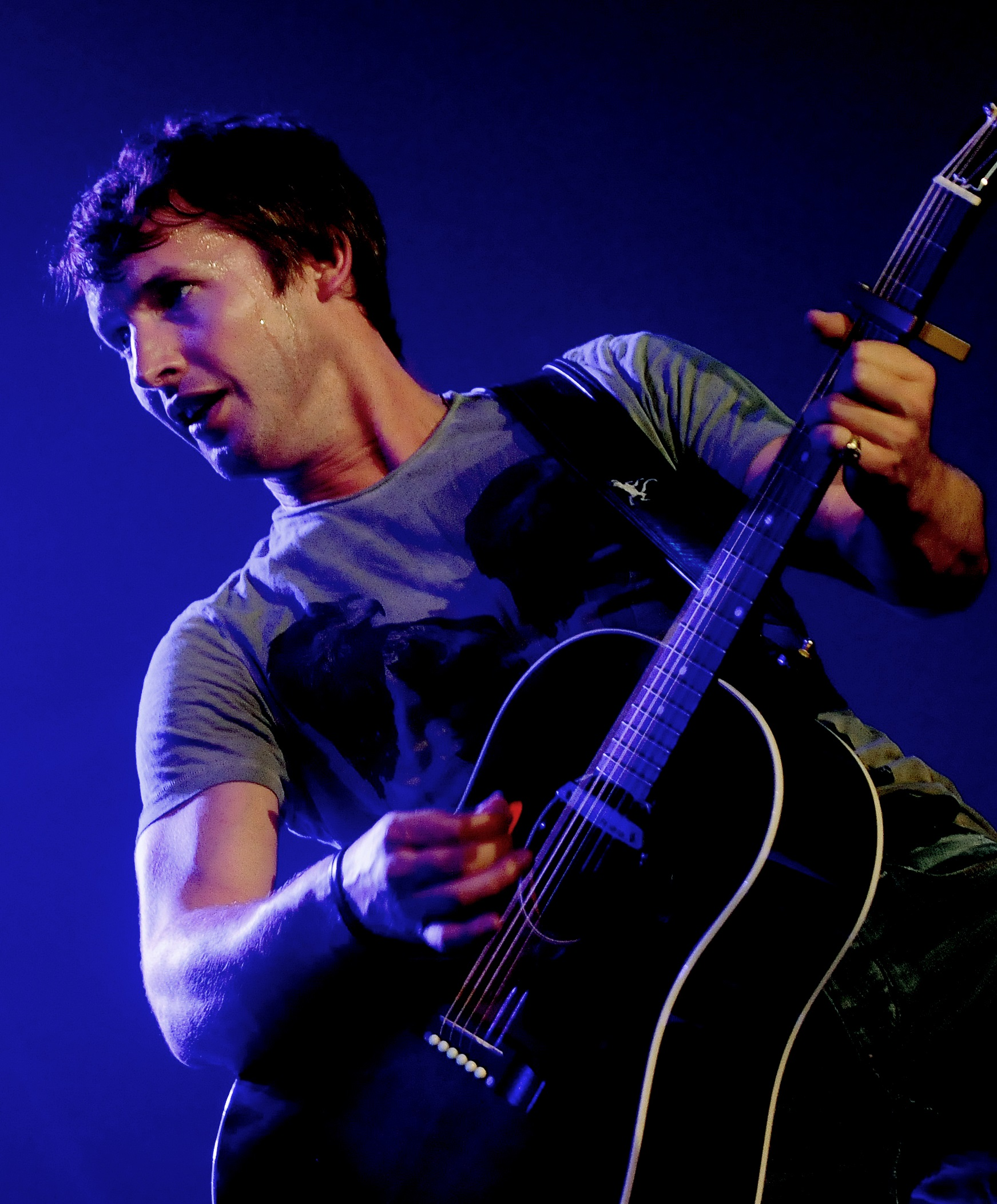 James Blunt, 2007.